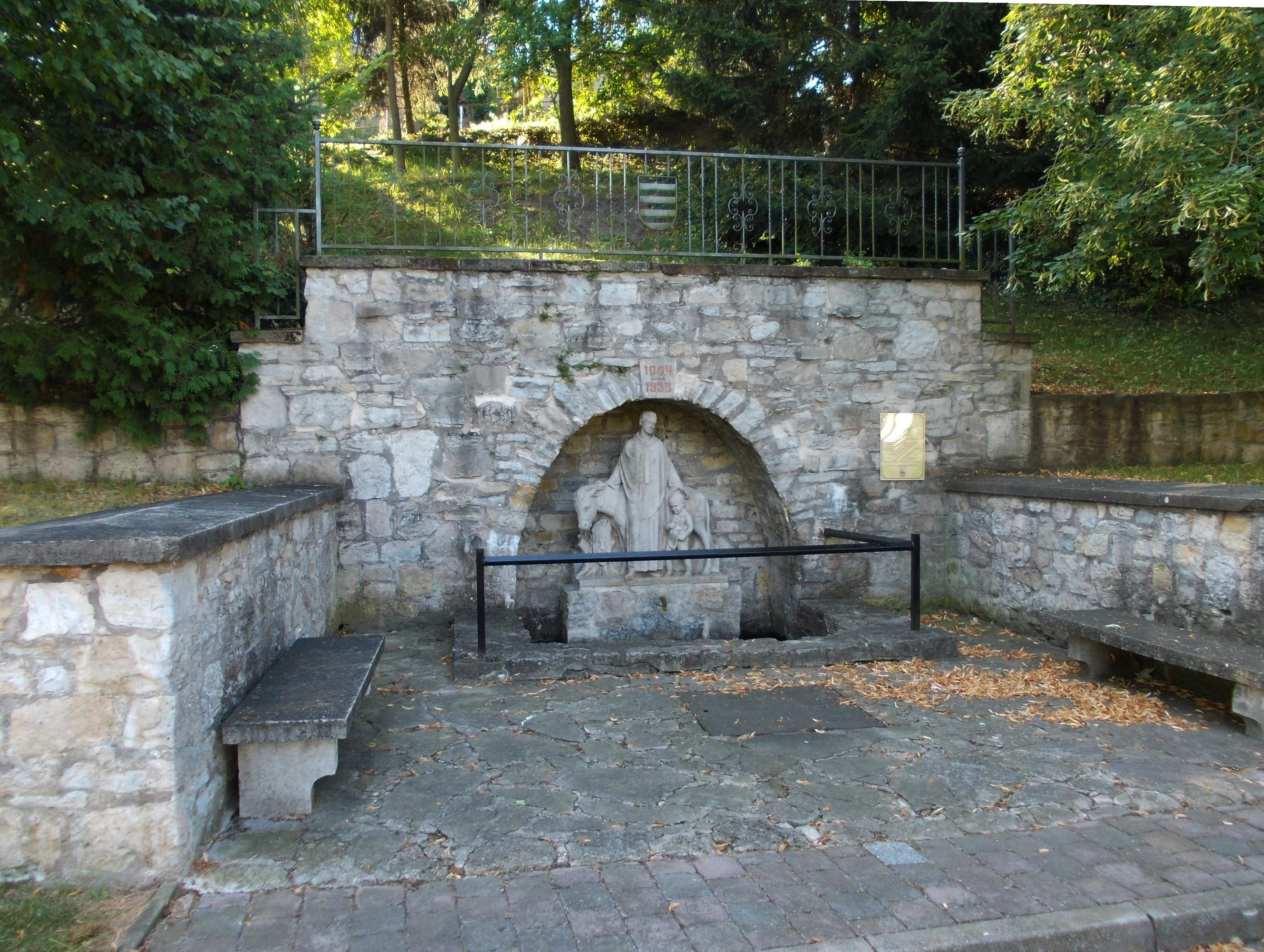 Bruno's fountain in Querfurt (district of Saalekreis, Saxony-Anhalt), associated with a legend about Saint Bruno of Querfurt